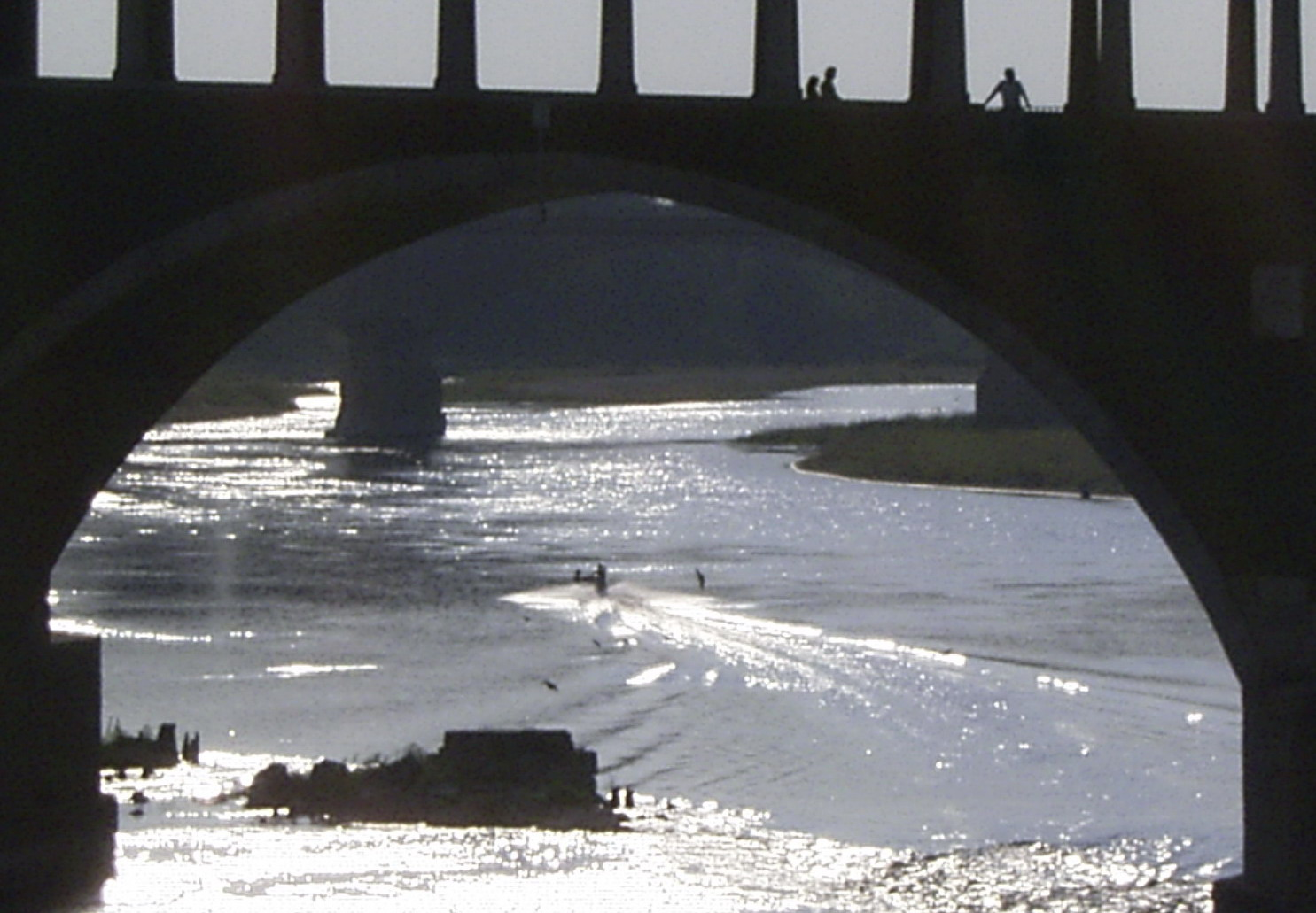 Ruins of the old bridge, at Pavia, Italy. Author: Giorgio Gonnella (User:Ggonnell)